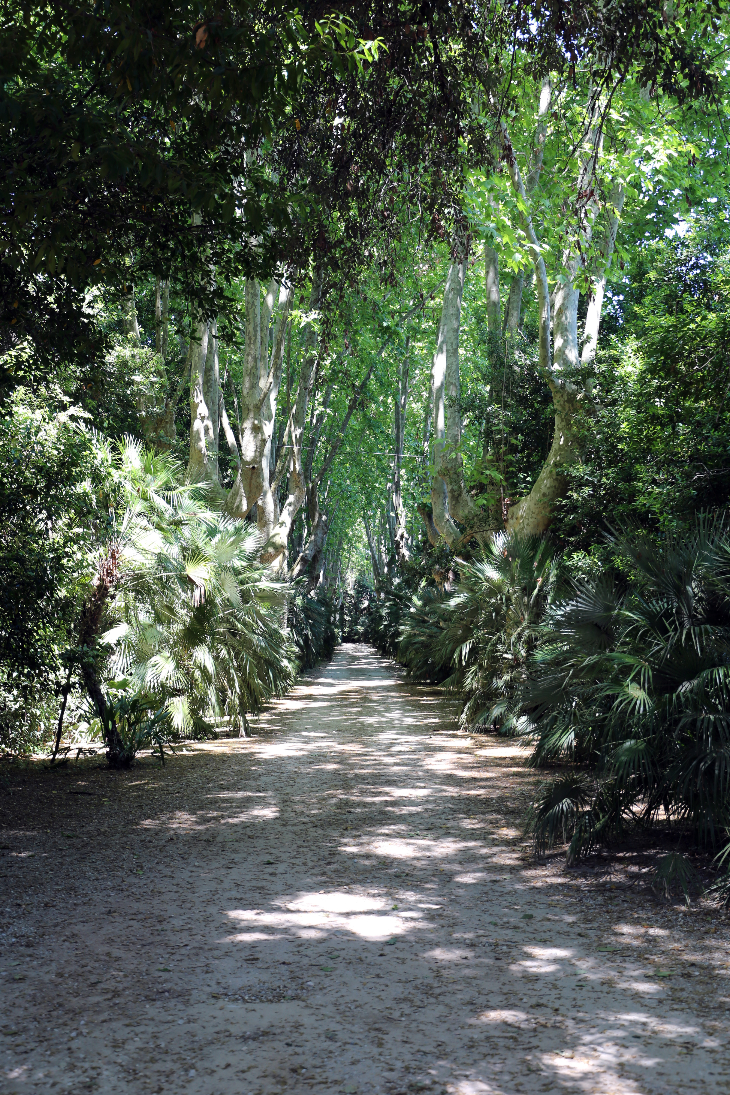 Villa Orlando (Viareggio)